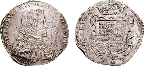 Italia, Milano: Filippo IV, come re di Spagna e Duca di Milano. 1621-1665. AR Filippo (27.95 g, 12h). Datata 1657. PHILIPPVS*IIII*REX*HISPANIARVM*, busto drappeggiato e corazzato dx, sulla spalla testa di leone; •1657• e tre punti sotto MEDIOLANI* *** *** *DVX*ET*C*, stemme coronato. Italy, Milan. Philip IV, as King of Spain and Duke of Milan. 1621-1665. AR Filippo (27.95 g, 12h). Dated 1657. PHILIPPVS*IIII*REX*HISPANIARVM*, draped and cuirassed bust right, epauliere with lion's head; •1657•, three pellets below MEDIOLANI* *** *** *DVX*ET*C*, crowned and garnished coat-of-arms. CNI V pg. 338, 120; Crippa pg. 303, 14 var. (legends); Davenport 4003. see: Italian modern coins